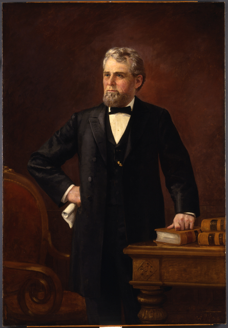 Knute Nelson Painter: Carl Gutherz (1844-1907) Art Collection, Oil 1895 Location no. AV1996.9.13 Negative no. 83147